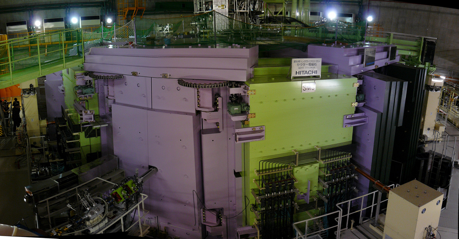 Superconducting Ring Cyclotron (SRC) at RIKEN Nishina center, Japan.